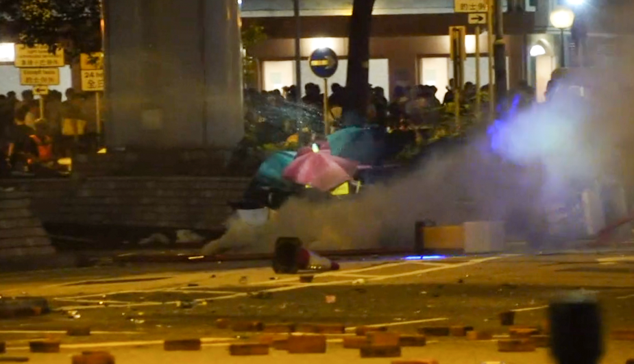 Tear gas smoke in Sheung Tak Estate entrance